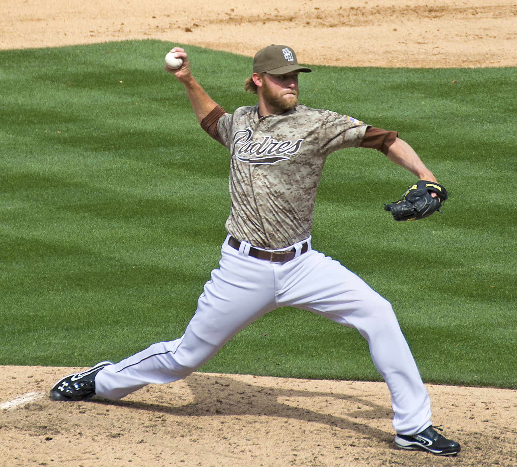 Andrew Cashner